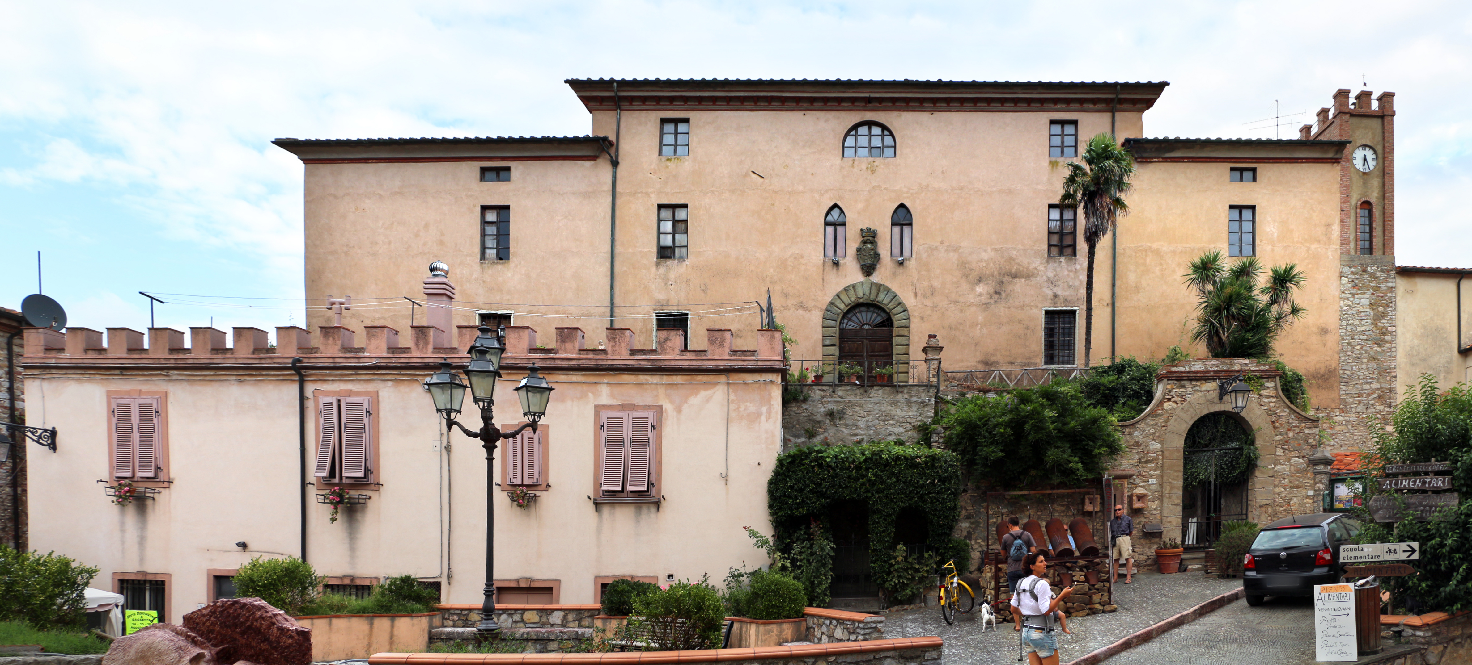 Sassetta (comune, Italy)